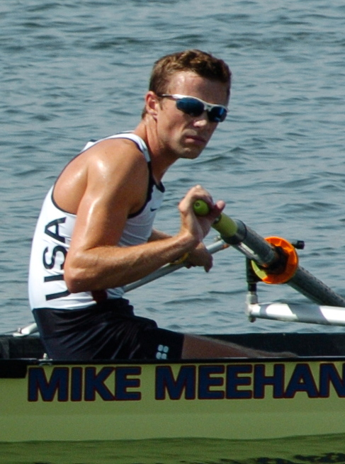 2004 Summer Olympics - Army World Class Athlete Program - FMWRC - U.S. Army - Official Image Archive - Athens Greece - XXVIII Olympiad